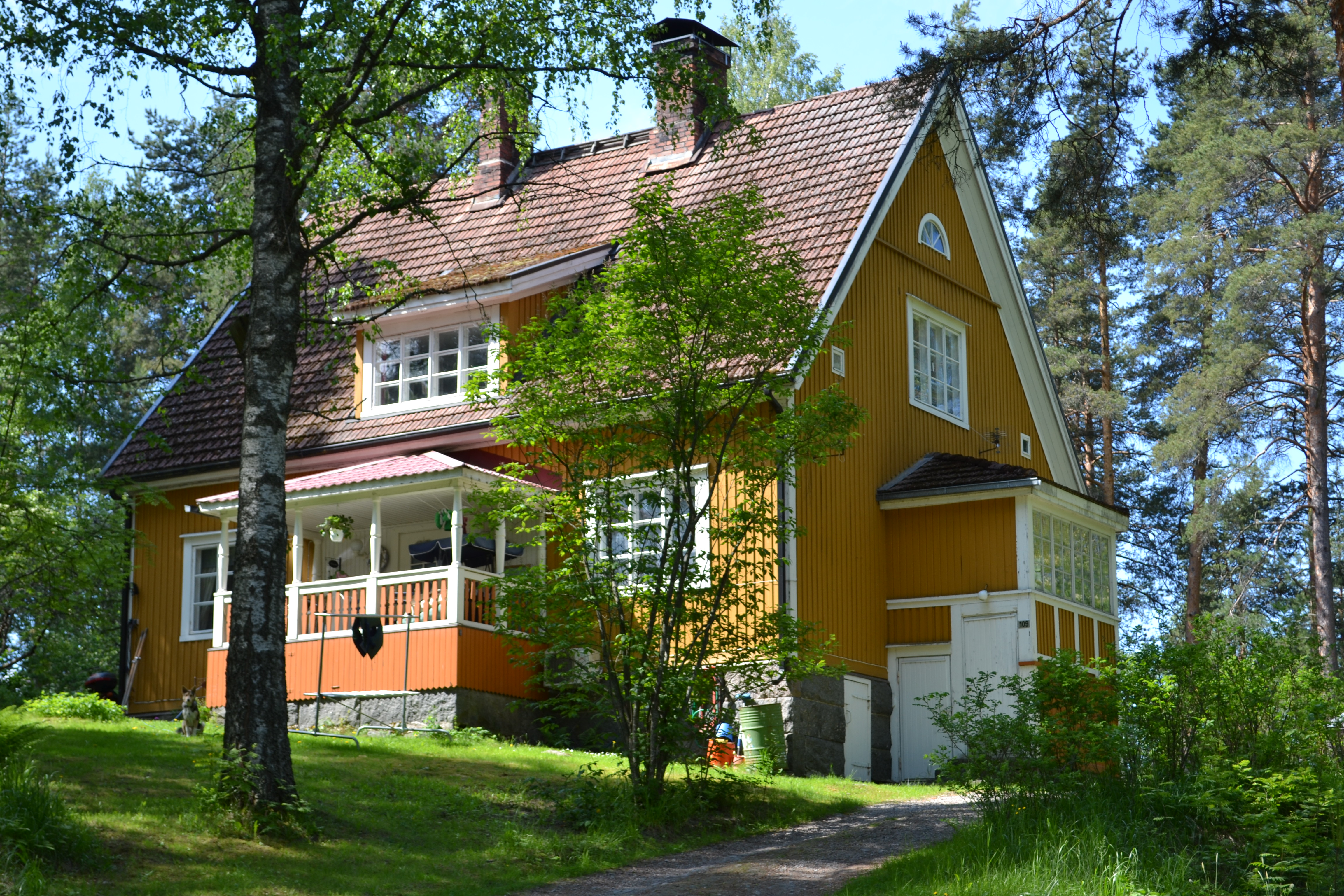 A house on the island Varassaari in Jyväskylä